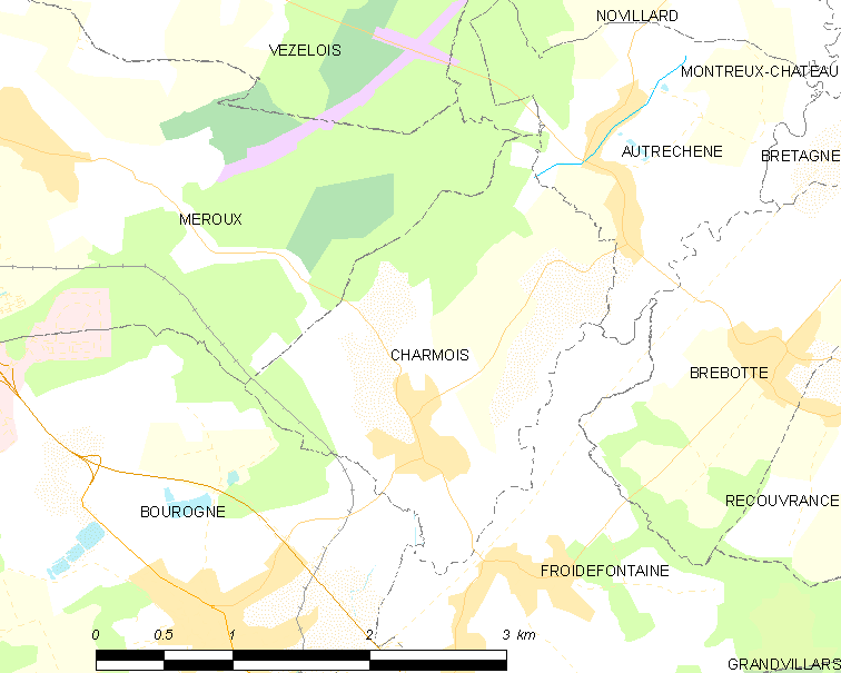 Map of French municipality Charmois